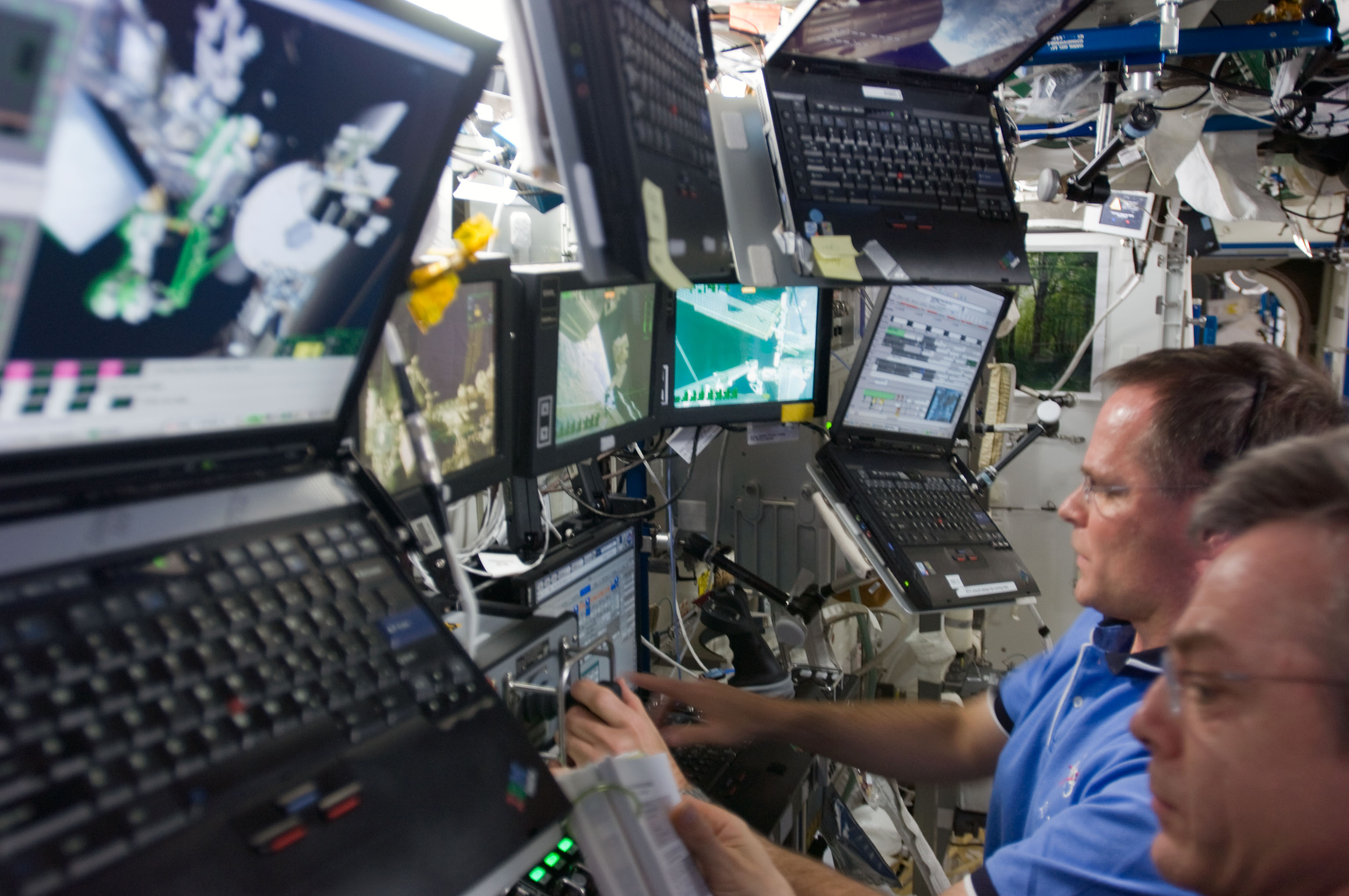 Canadian Space Agency astronaut Robert Thirsk (right foreground, mostly out of frame), Expedition 20 flight engineer; and NASA astronaut Kevin Ford, STS-128 pilot, work controls of the station's robotic Canadarm2 in the Destiny laboratory of the International Space Station while Space Shuttle Discovery remains docked with the station.